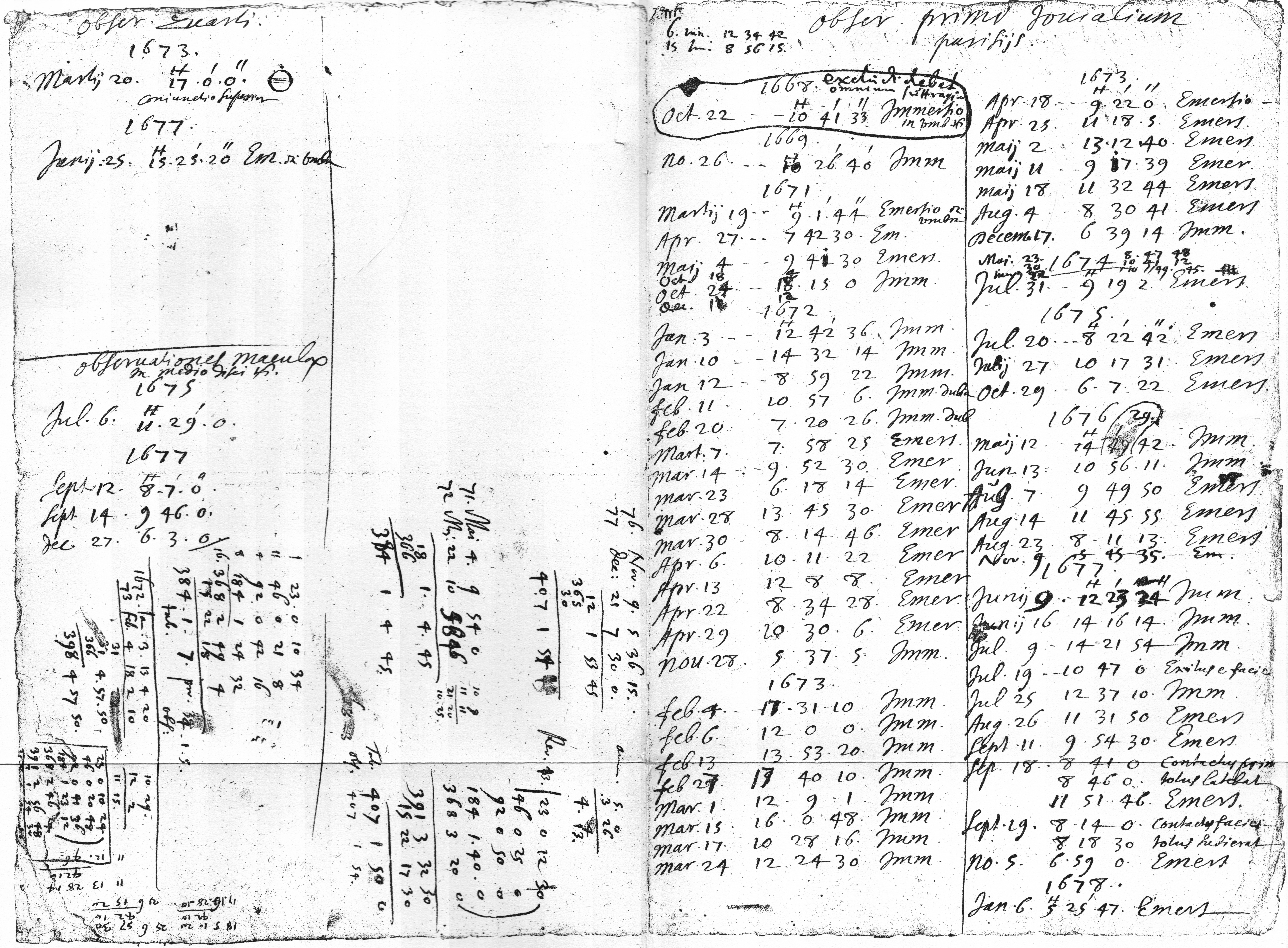 Page 1 (right) and 4 of the list of eclipses of the Jupiter moon Io that formed the basis of Ole Rømer's discovery of the finite speed of light. The Latin title Obser. Primi Jovialium Parisiis translates to "Observations of the first Jupiter moon in Paris". Page 1 lists emersions and immersions of Io observed between 1668 and 1678. The first observation (circled) is marked "should according to everyone's opinion be excluded". The top of page 4 lists observations of the fourth moon of Jupiter (Callisto). At the lower half are a couple of attempts to match the number of revolutions ("Rev.") of Io with an average orbiting time for three periods, 76-77, 71-72 and 72-73. Next to them are what according to Meyer p. 19 appears to calculations of an average value of the time it takes light to travel a distance equal to the Earth orbit radius (ca. 11 minutes). At the bottom, written upside down, are calculations of eclipses in Paris based on observed eclipses at Uranienborg.